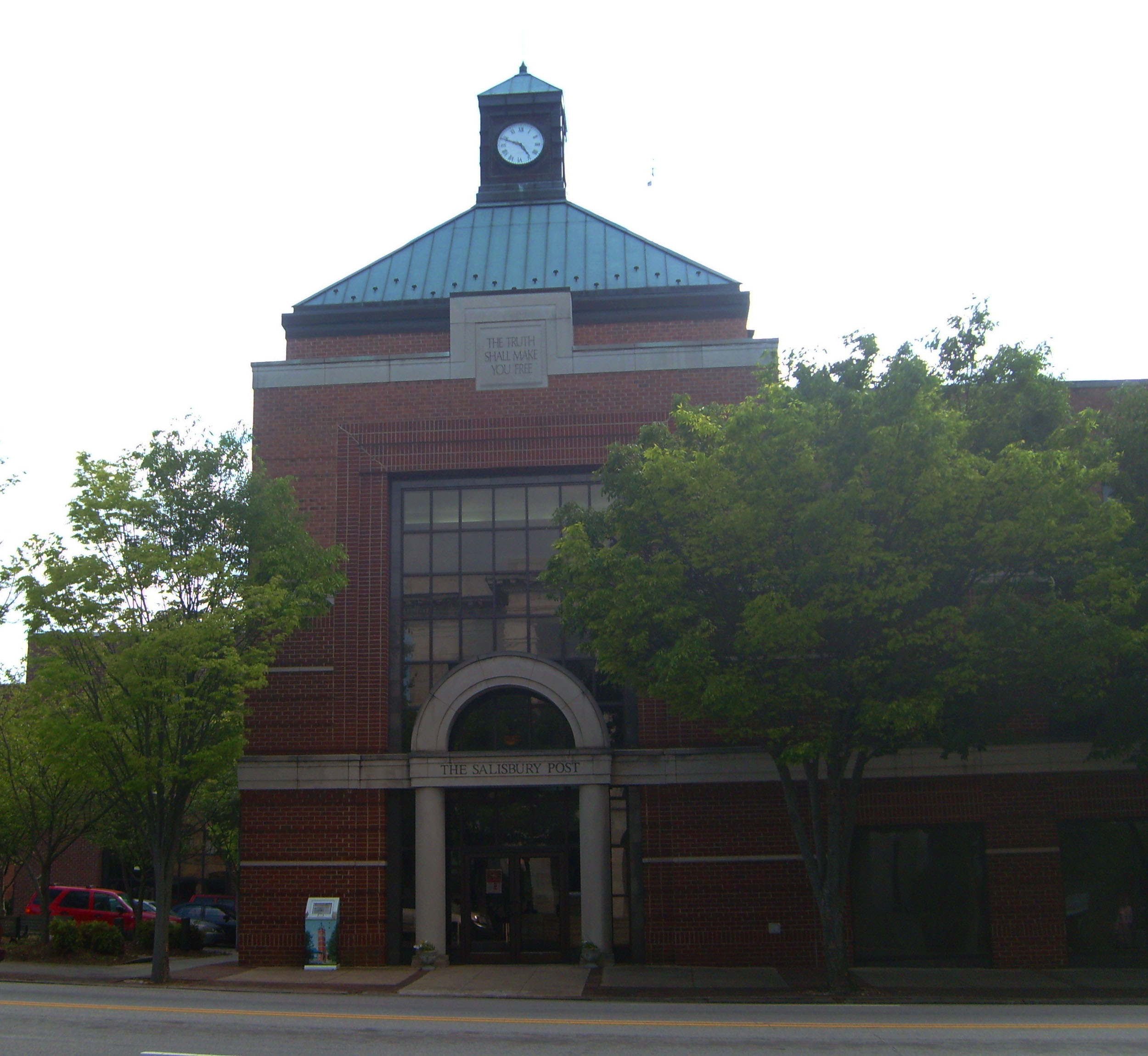 Salisbury Post building on the corner of Innes St. and Church St. in Salisbury, North Carolina, USA.